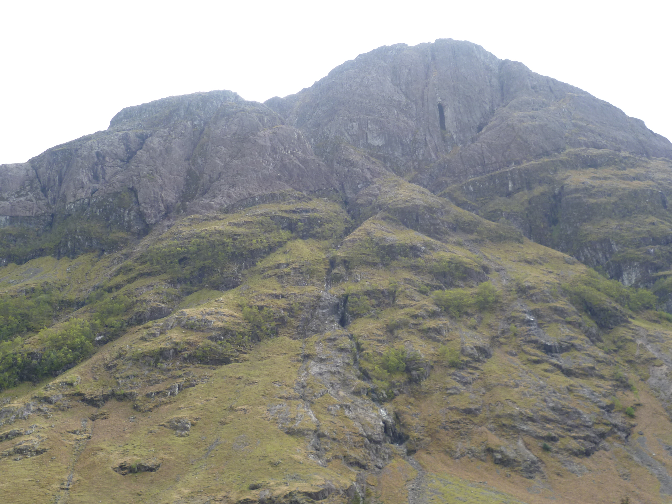 The 'cave' can be seen upper right on the slope of Aonach Dubh, one of The Three Sisters in the 'Glen of Weeping'.